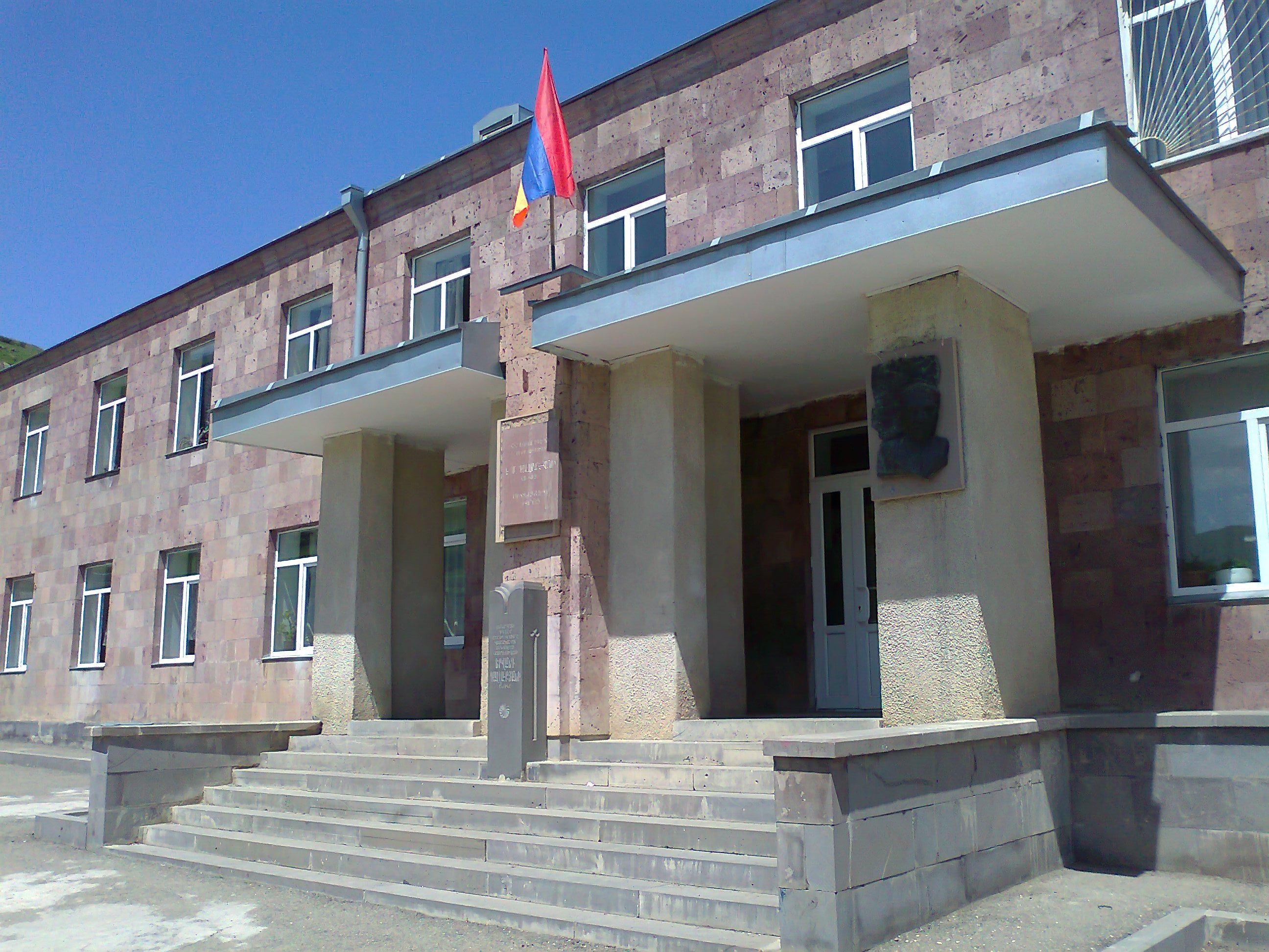 Լոռու մարզի Լեռնապատի Ե. Դալլաքյանի անվան միջնակարգ դպրոցի շենքը